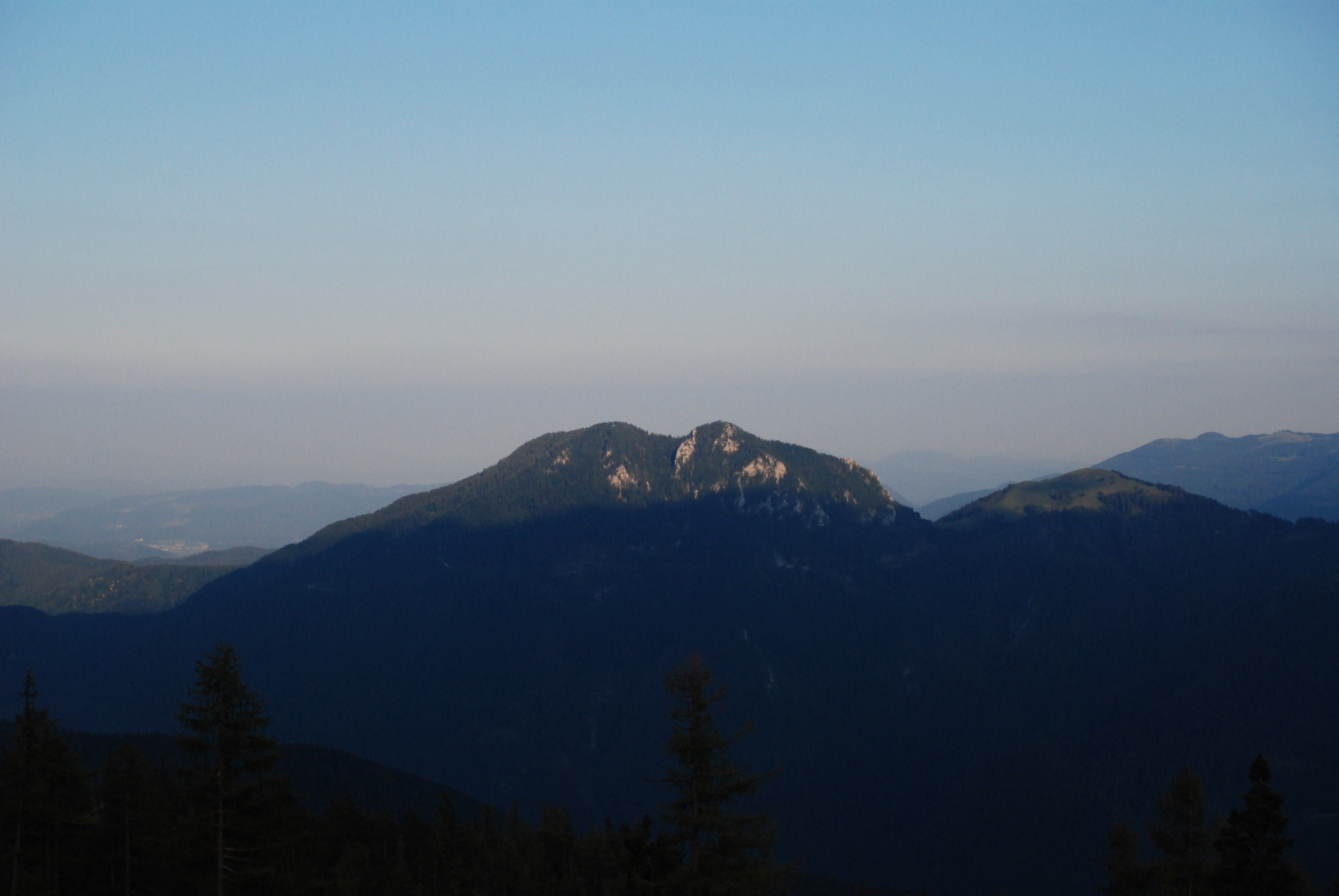 Veliki Rogatec (1557 m).[2] Krnica, Municipality of Luče, Slovenia. Picture taken from the Podvežak Pasture (northwest).